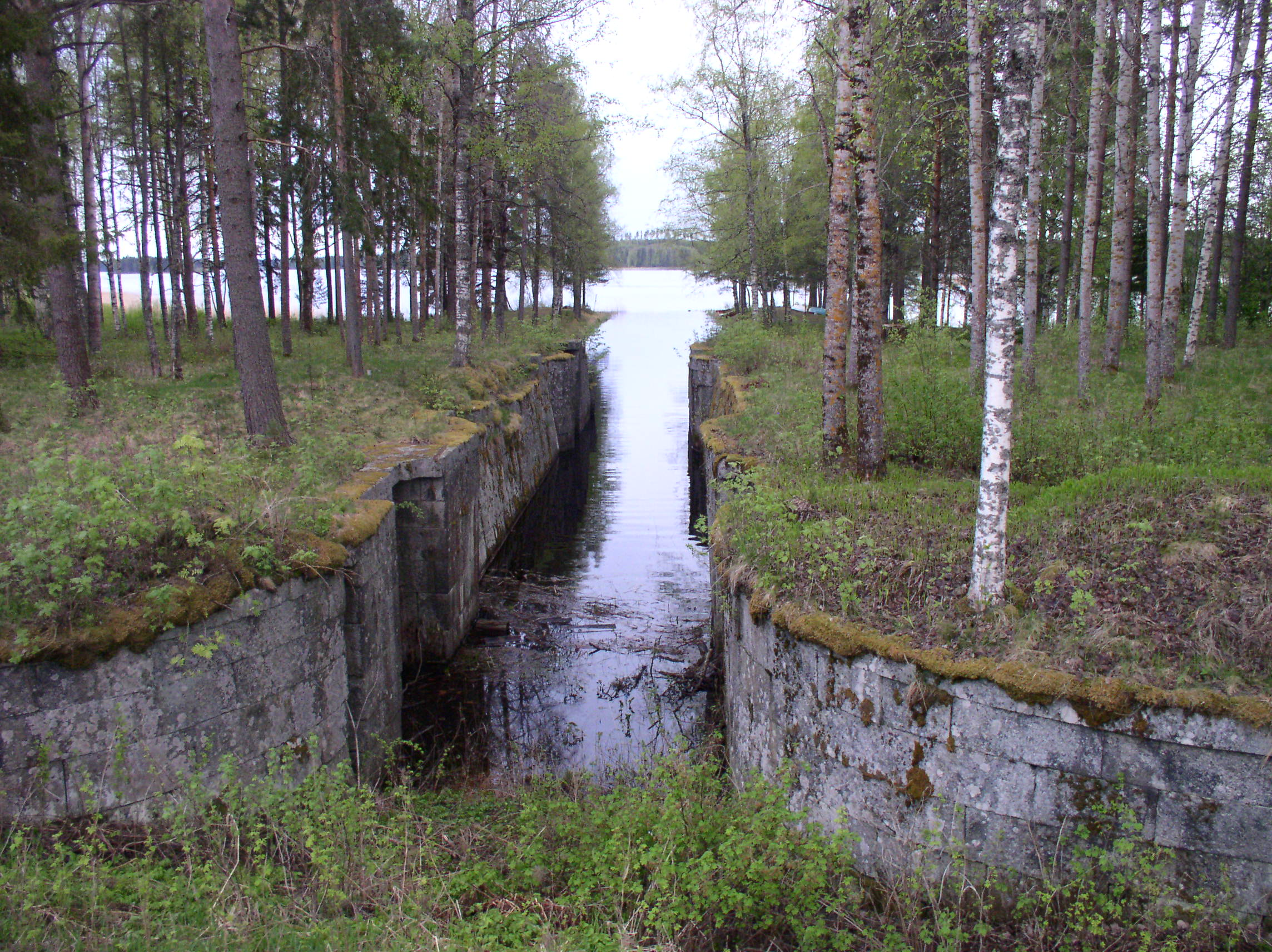 The historical Vianta Canal (1852–73) in Maaninka, Finland. A view to the south from the highway crossing the canal. The remains of the lock chamber in the foreground.